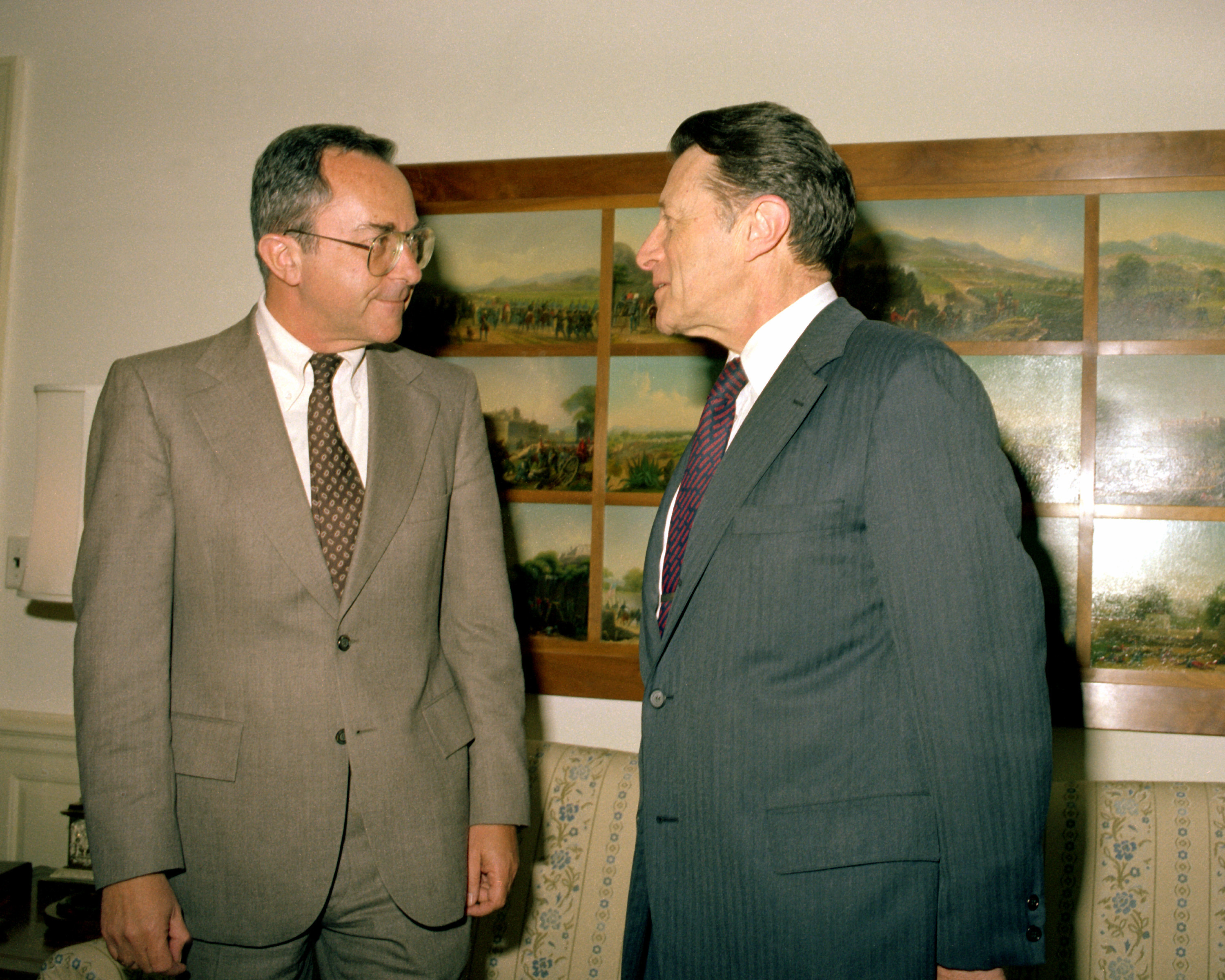 Secretary of Defense Caspar W. Weinberger meets with Ambassador of Israel Moshe Arens in his Pentagon office, Room 3E880. Location: WASHINGTON, DISTRICT OF COLUMBIA (DC) UNITED STATES OF AMERICA (USA)